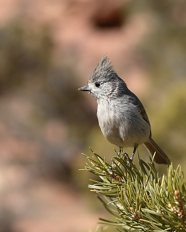 Juniper Titmouse (Baeolophus ridgwayi)